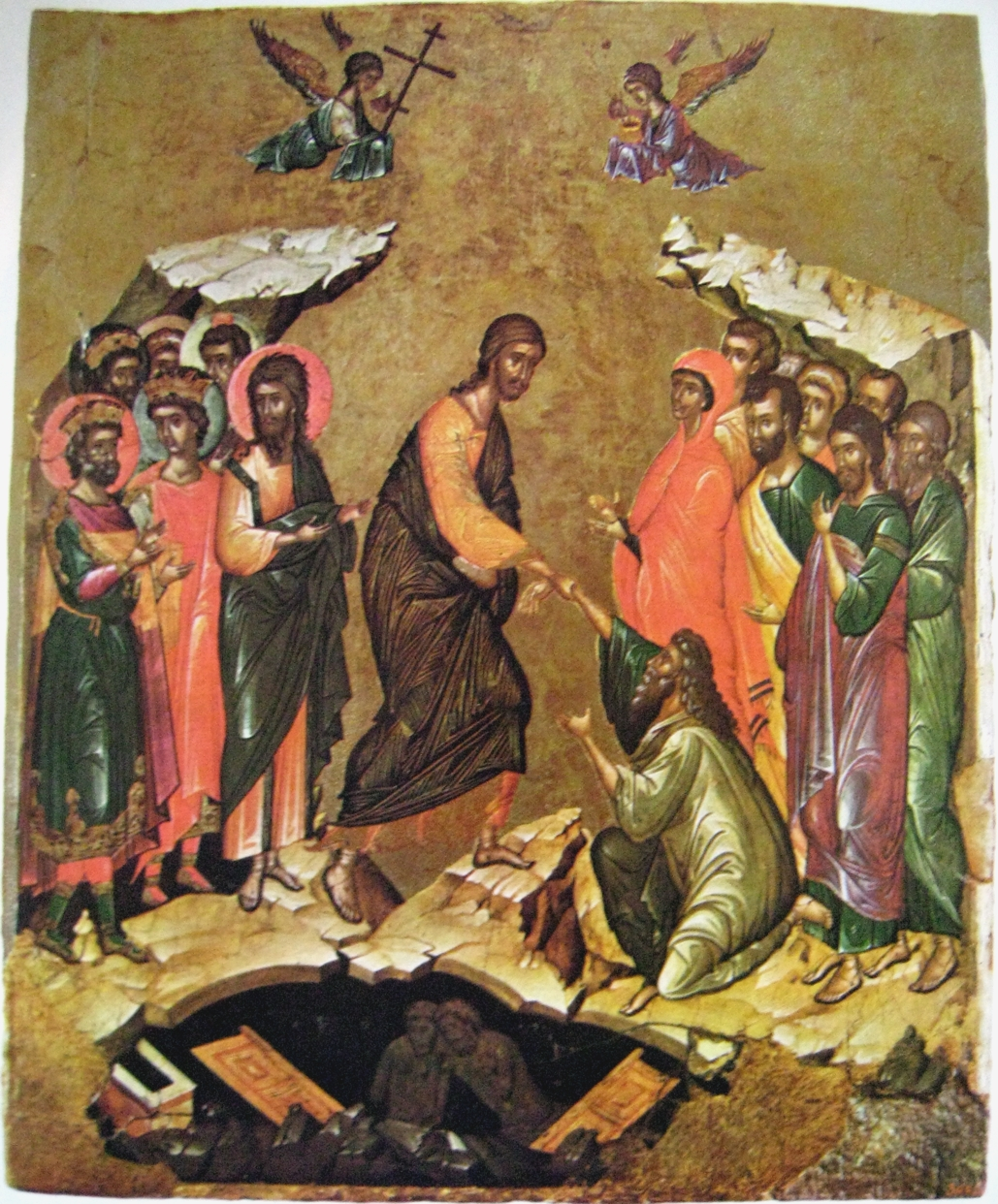 Harrowing of Hell/ 15 c. Hermitage